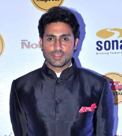 Abhishek at NGO Magic bus auction, October 2013